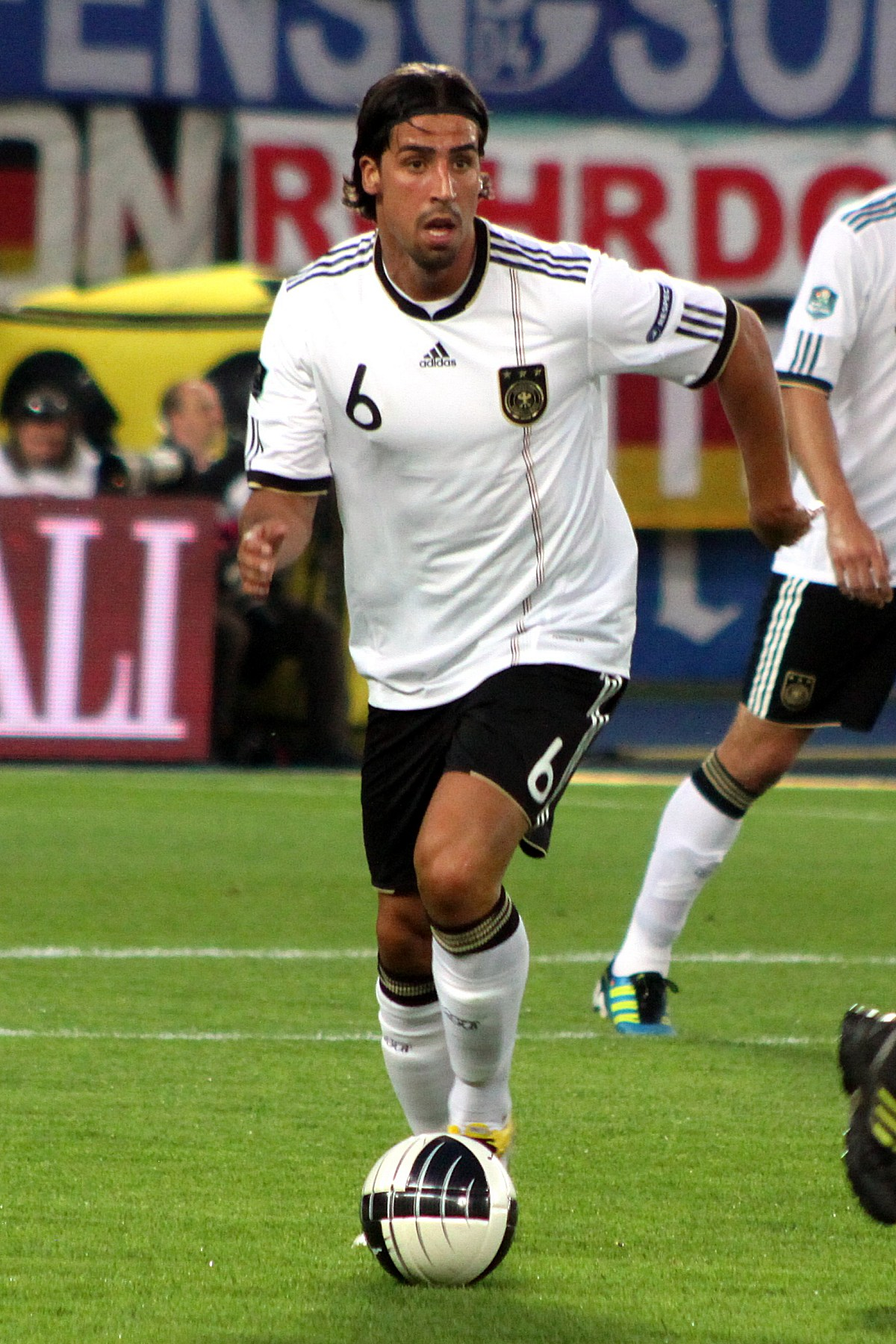 Sami Khedira (Real Madrid), german national football team